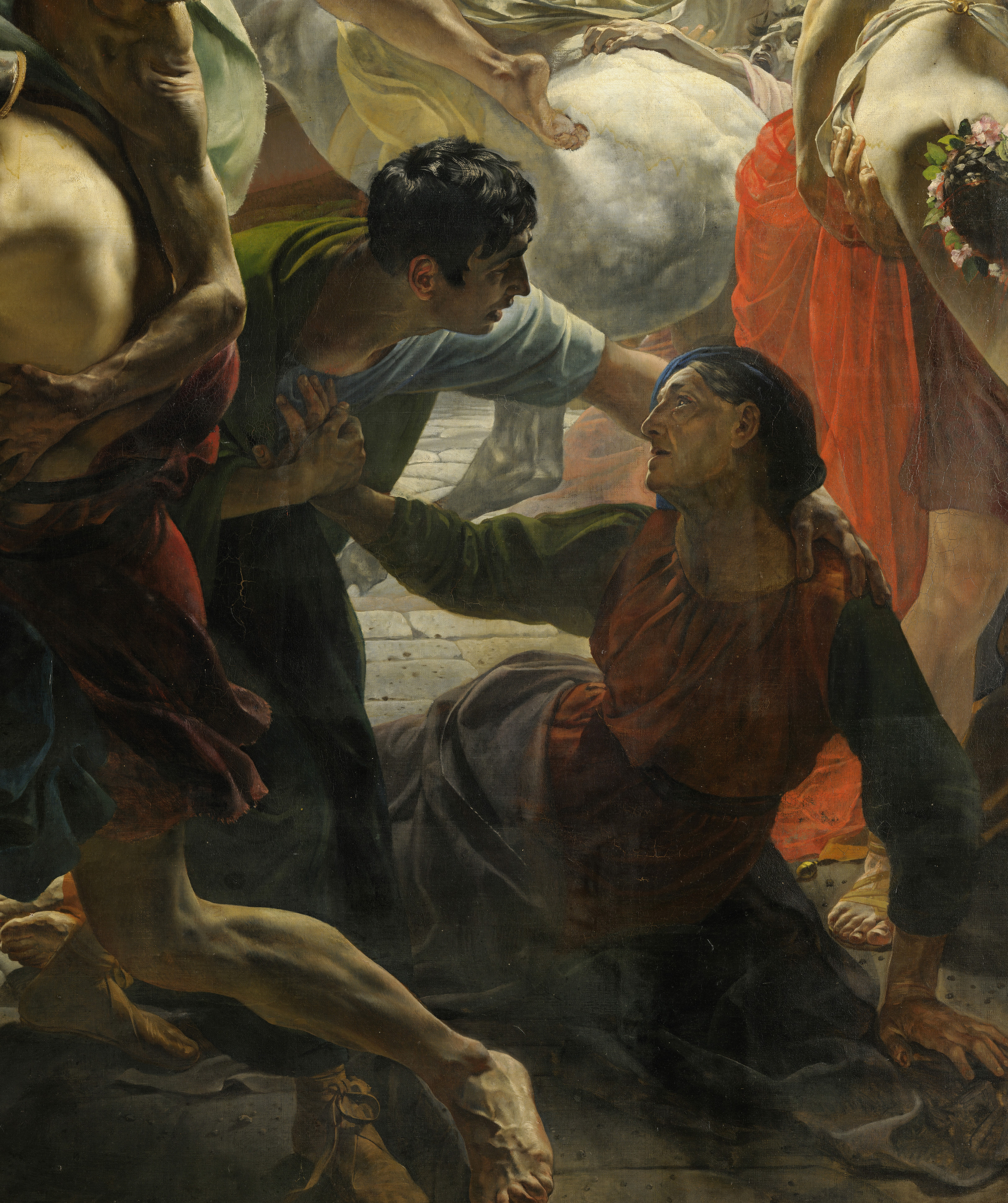 Detail of "The last day of Pompeii" (by Karl Bryullov, 1833, Russian Museum)